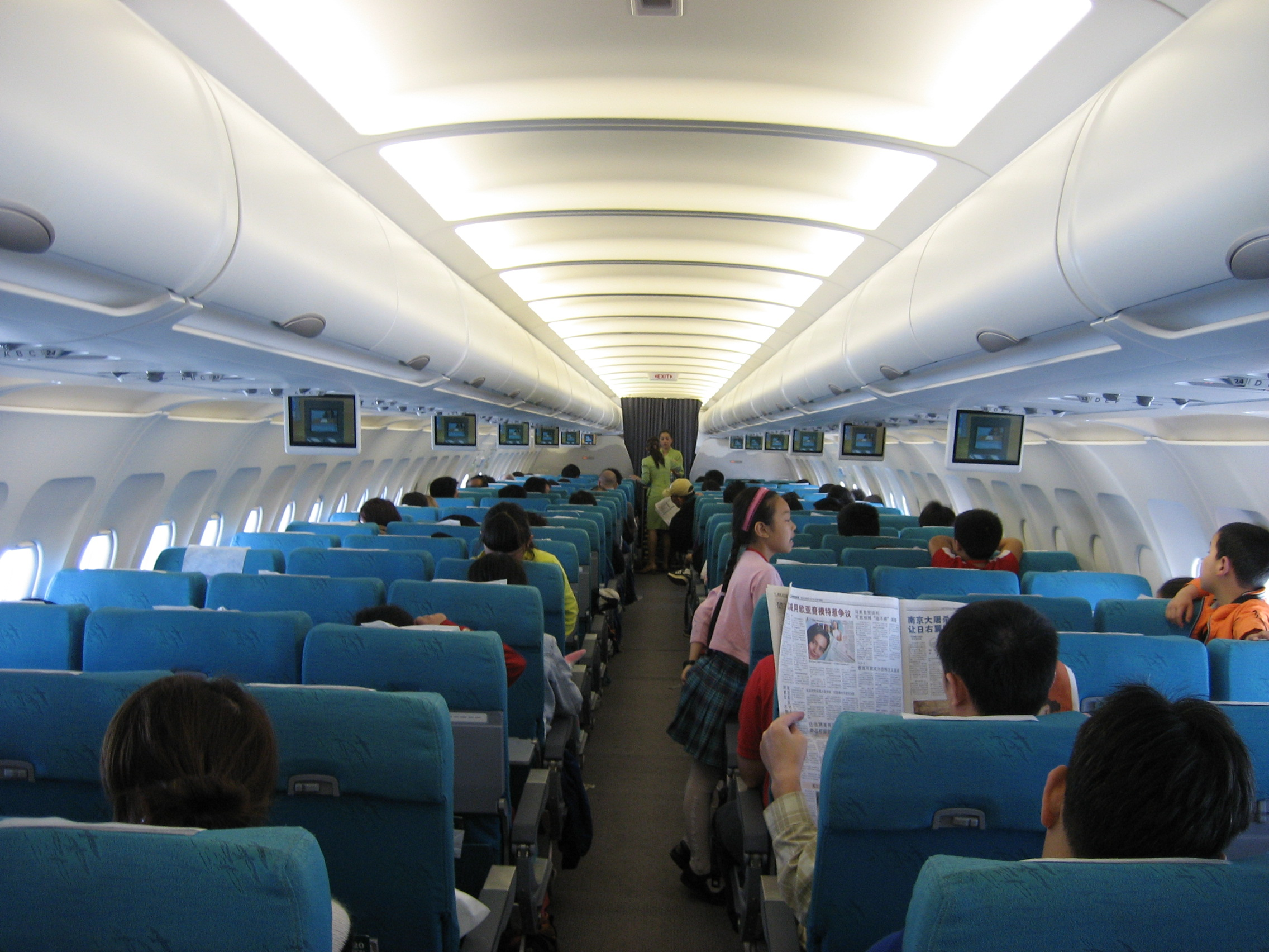 Economy Class Cabin of SilkAir, Airbus A320-200 (9V-SLI).